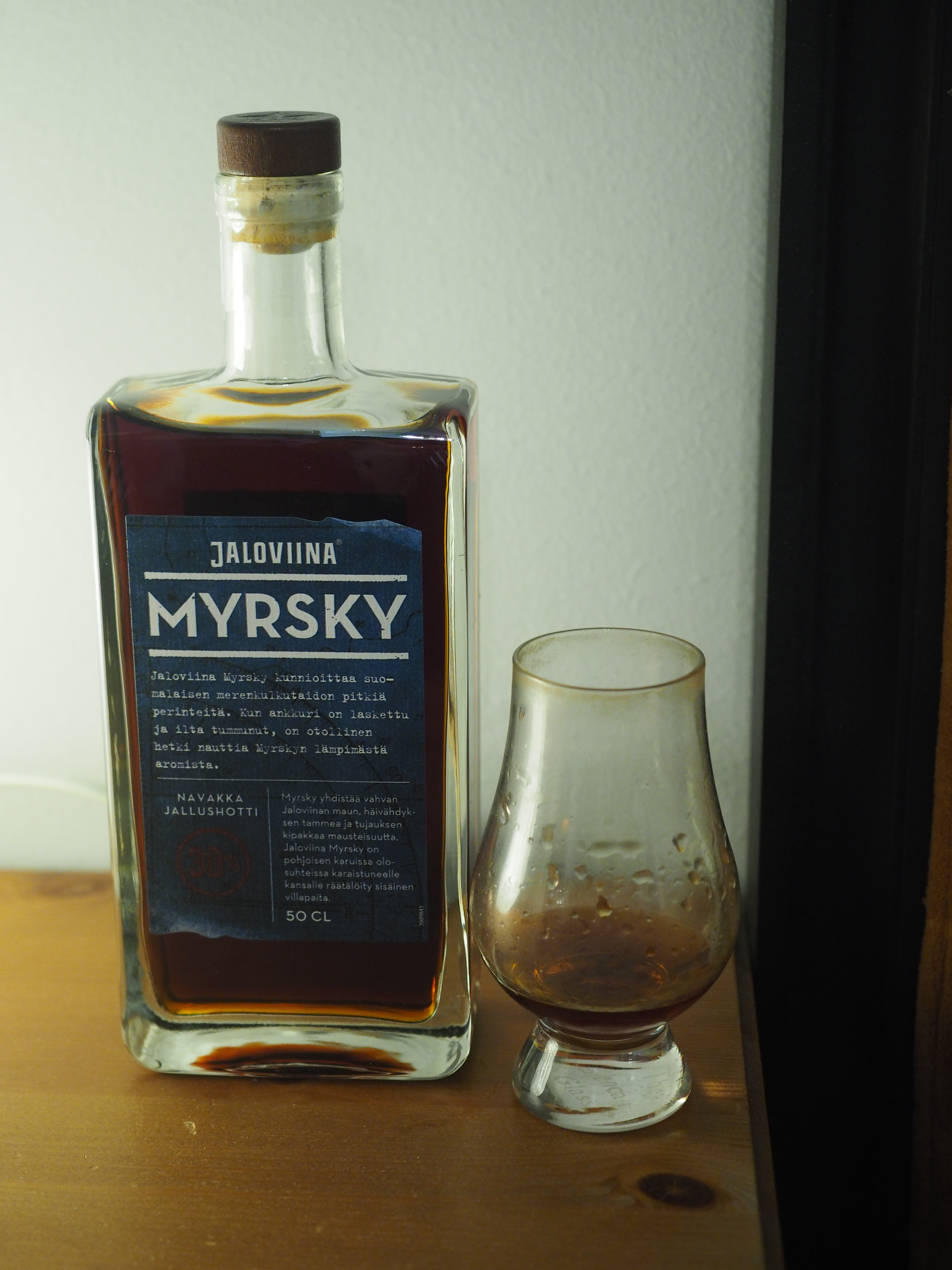 A bottle of Jaloviina Myrsky herbal liqueur, based on Jaloviina (a mix of brandy and vodka).